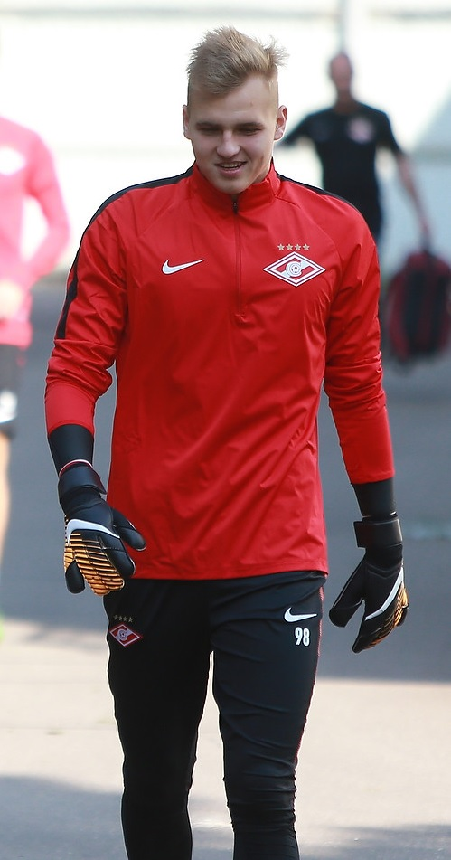 Aleksandr Maksimenko training with FC Spartak Moscow.